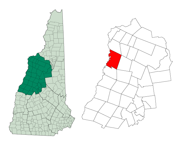 Map of a municipality in Belknap County, New Hampshire